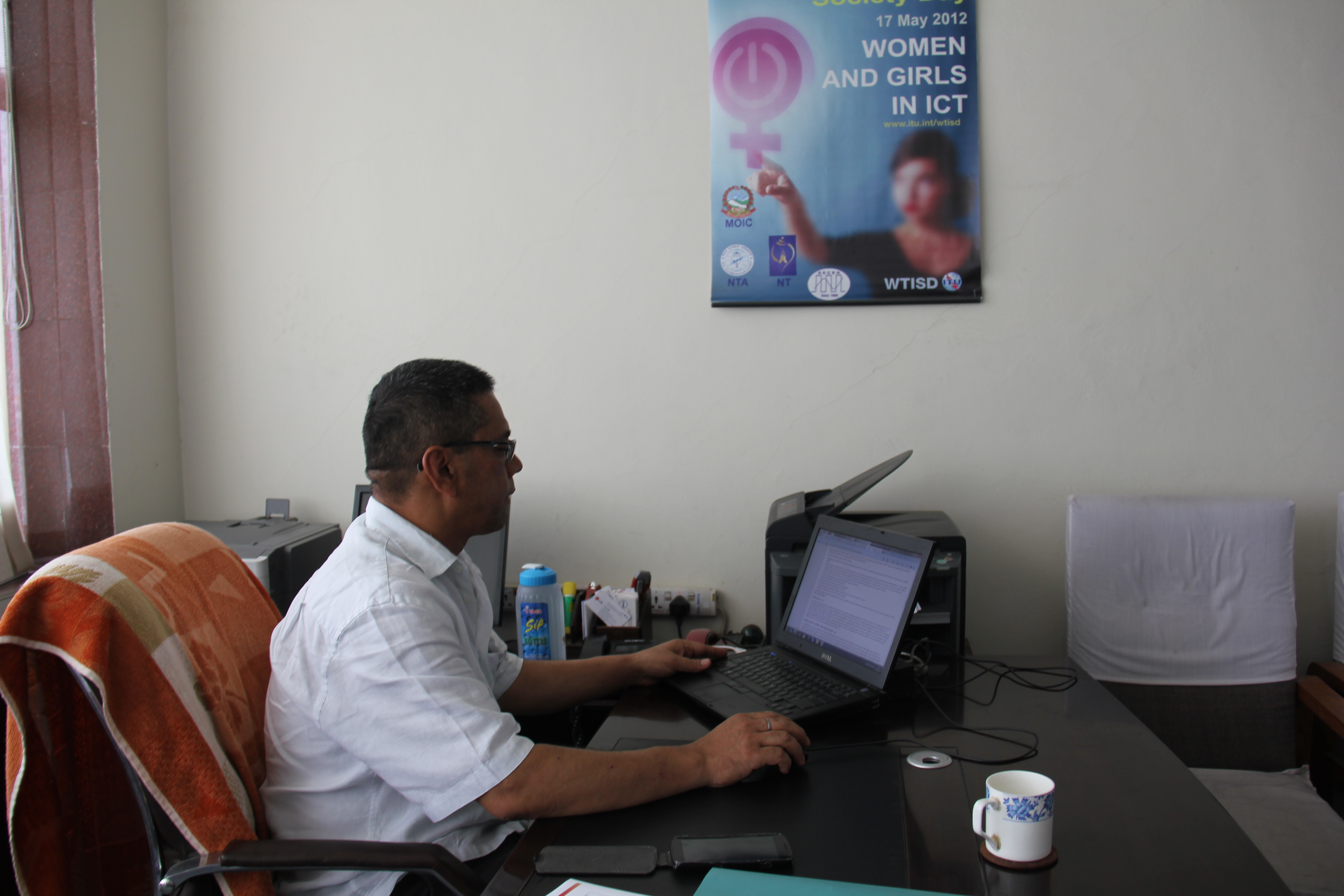 Lochan Lal Amatya Nepal Telecom Office